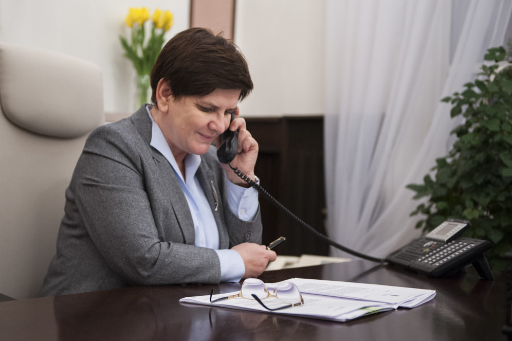 Polish Prime Minister Beata Szydło during a phone call with British Prime Minister Theresa May following the UK invocation of Article 50